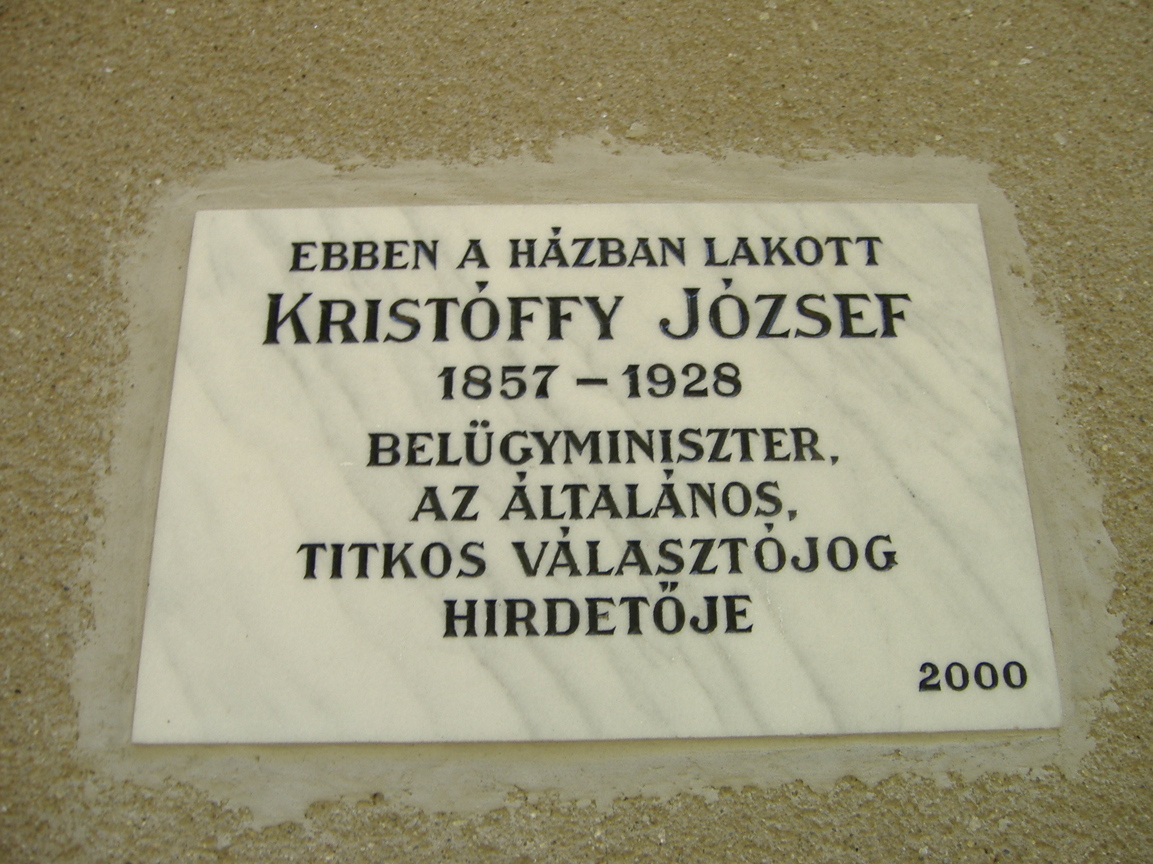 Memorial tablet of József Kristóffy, Home Secretary in Makó, Hungary.